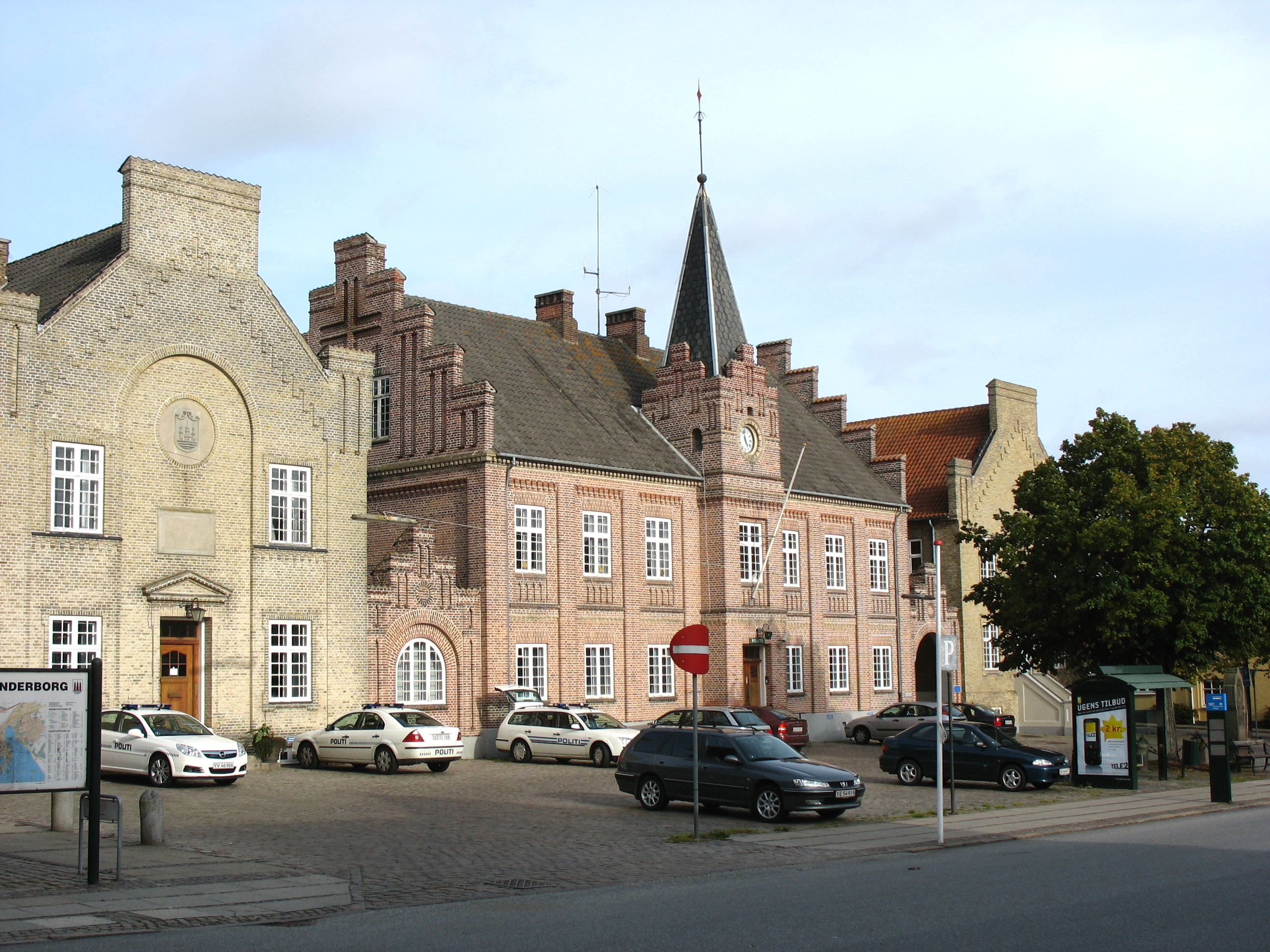 Skanderborg Police Station in the former town hall.